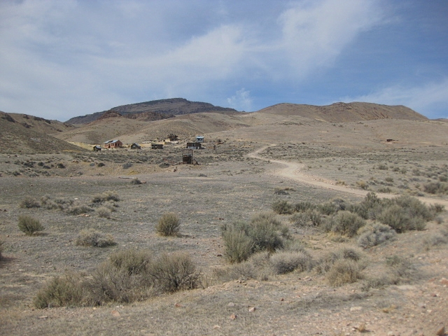 Tunnel Camp, Seven Troughs Range, looking W, Pershing Co., NV